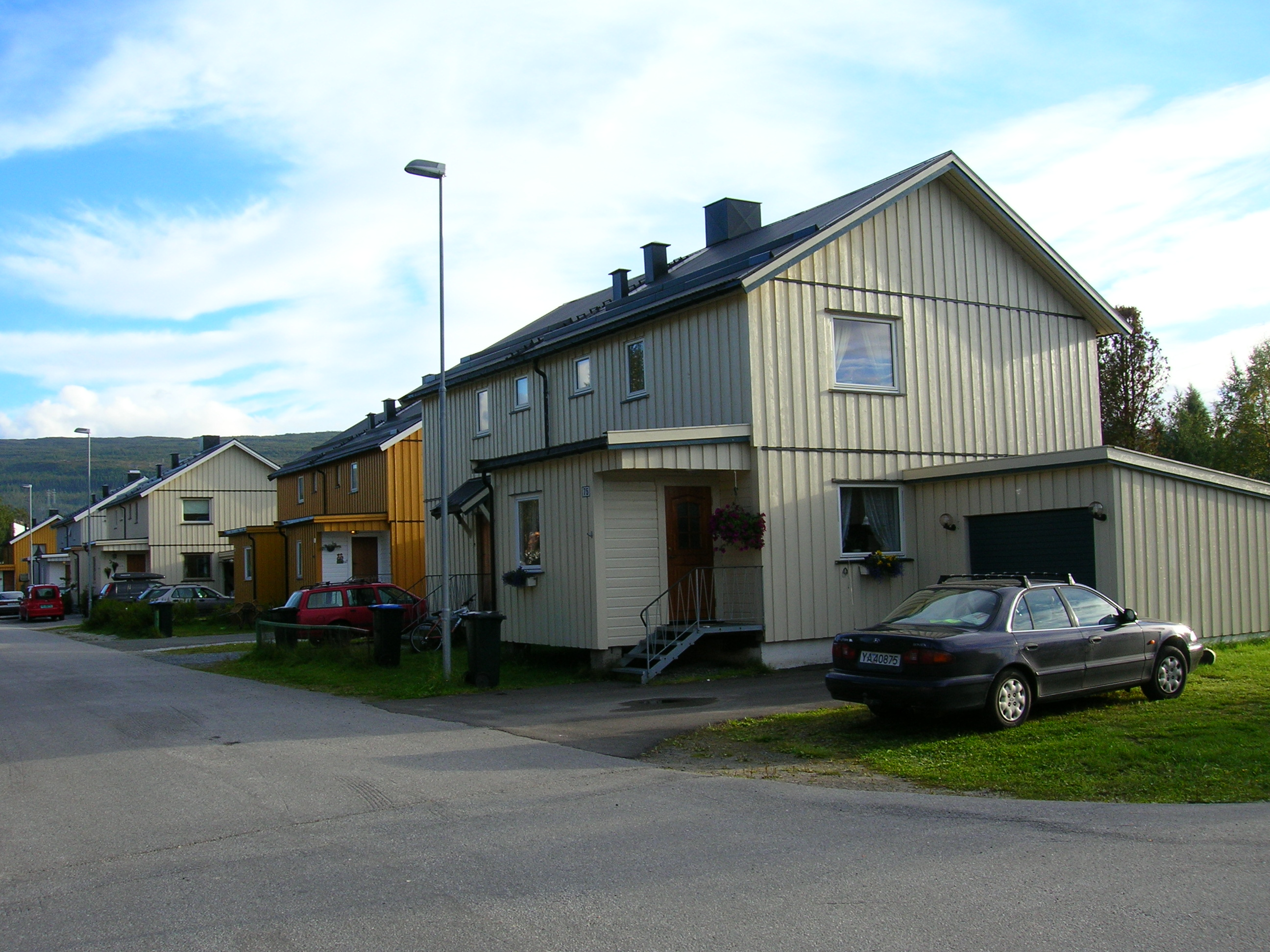 Selfors housing cooperative on Selfors, north of Mo i Rana, Rana municipality, county of Nordland, Norway, Photo 4 September, 2007 with a Nikon Coolpix 5600 5,1 Megapixel camera.